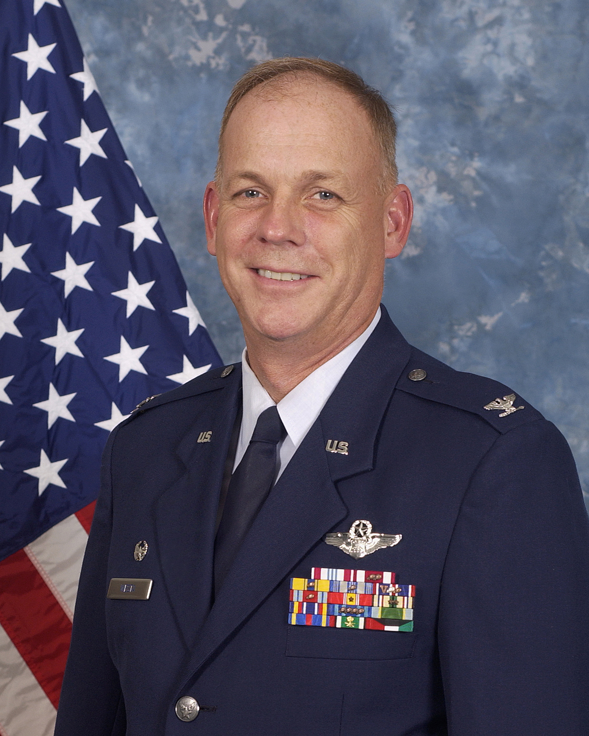 United States Air Force (USAF) Colonel Joel Westa, commander of the 5th Bomb Wing at Minot Air Force Base